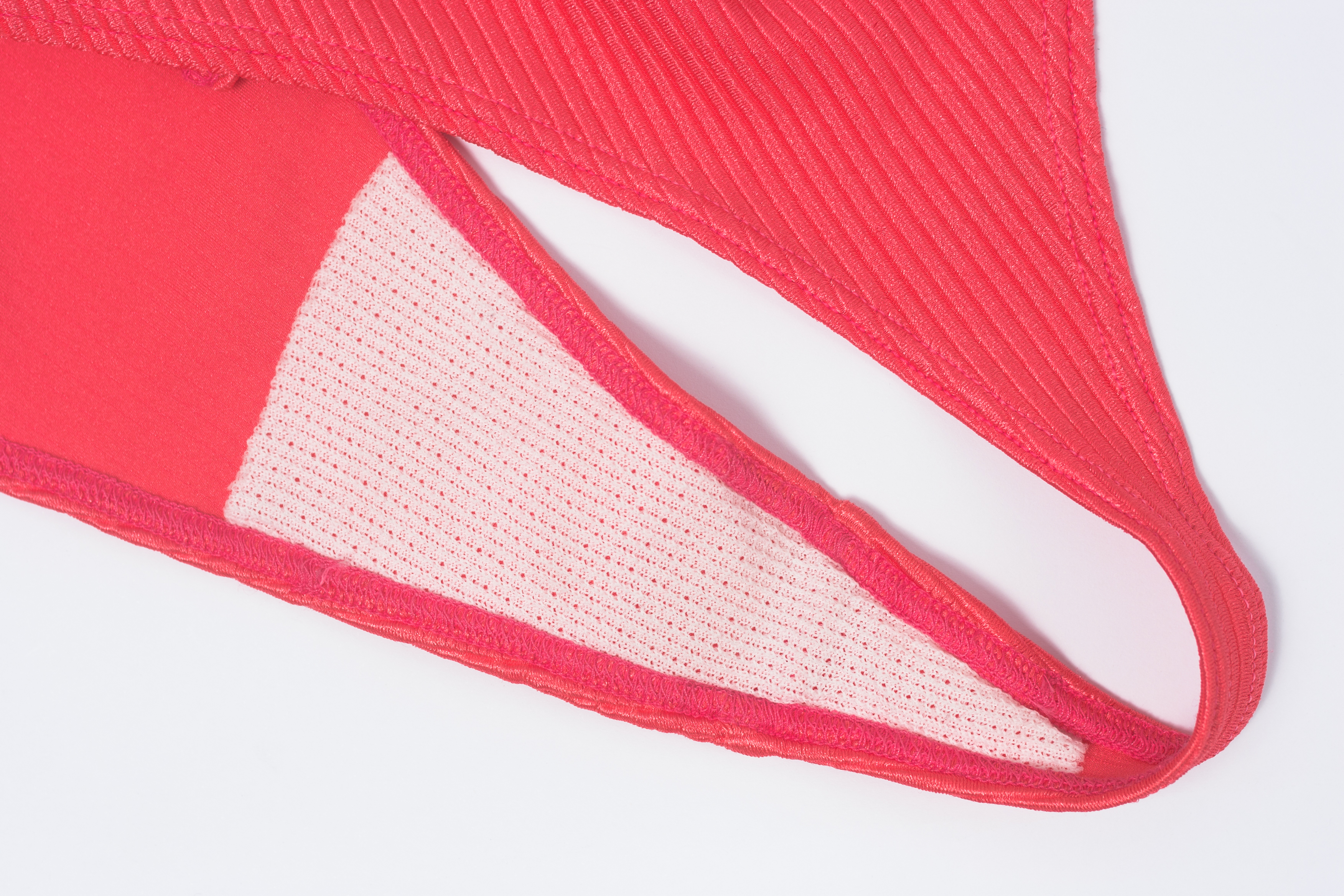 Gusset appears to be made of synthetic. Basic composition of the whole item is advertised as 82% polyamid, 18% elasthan. Retail price at 89 DM. Color was advertised as "10". Color of this photo was adjusted with the help of a ColorChecker color chart by takeing a photo of the chart and the pictured item under the same conditions and comparing/adjusting to the advertised RGB values. This time taken with a flash gun and shoot through umbrella and silver reflector to the other side.